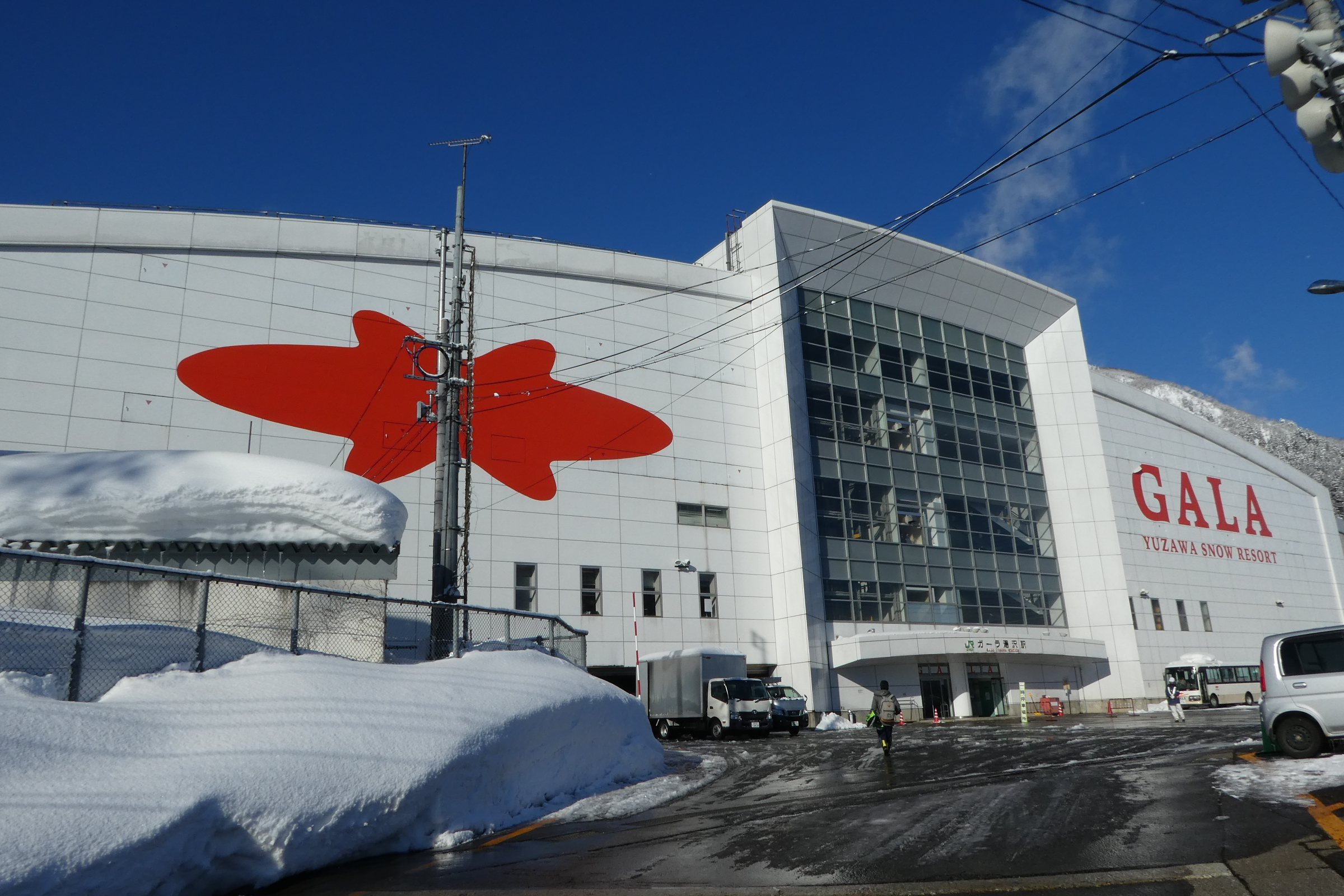 Gala-Yuzawa Station